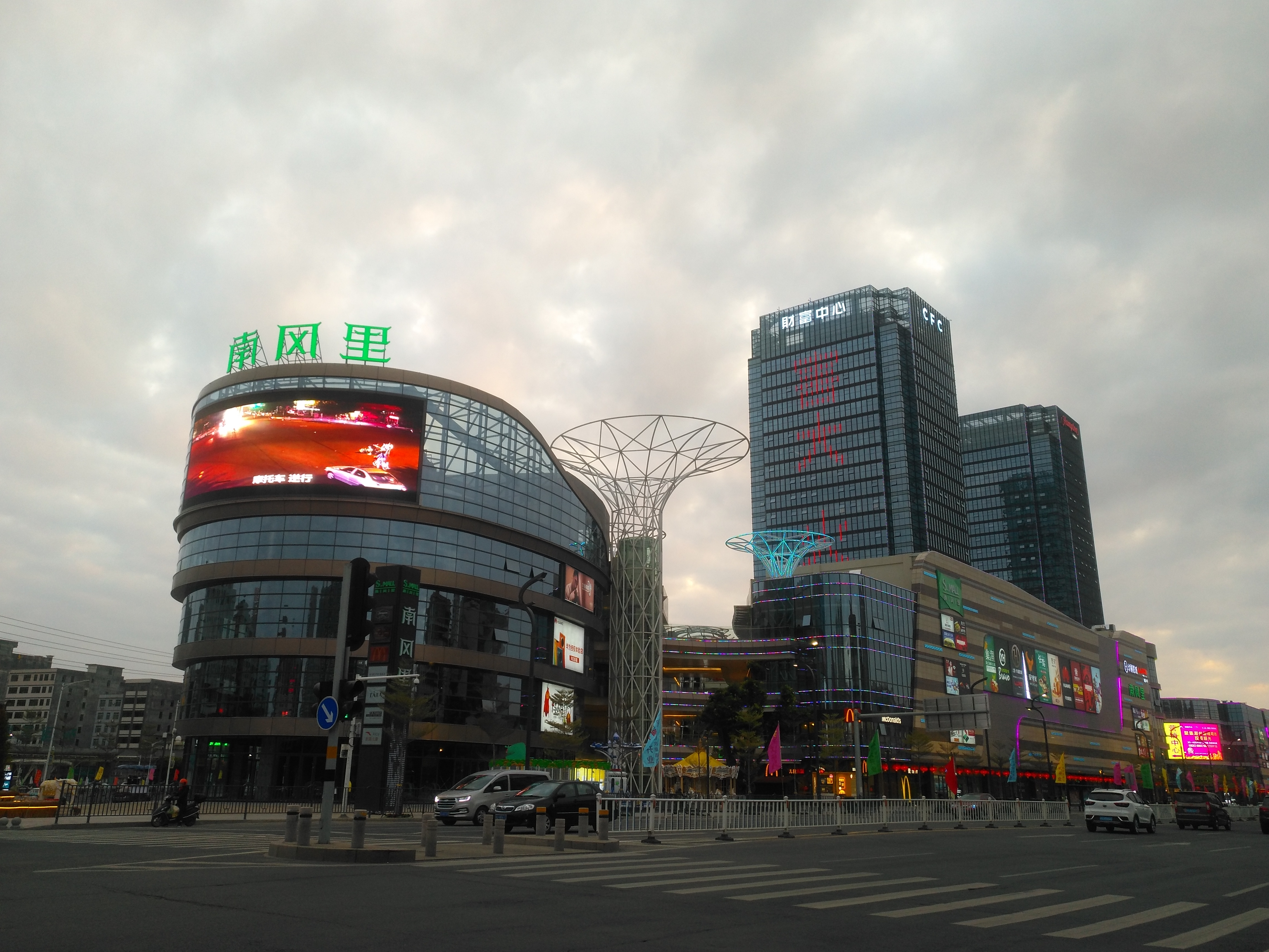 Chaozhou Fortune Center.